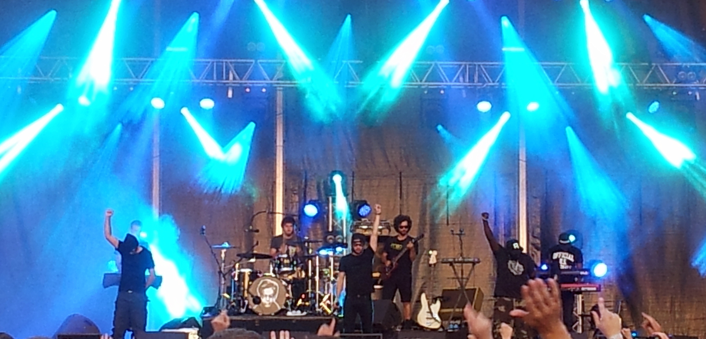 Orelsan and company at the Nuits Secrètes Festival at Aulnoye-Aymeries, Nord-Pas-de-Calais in France on 4 August 2013.